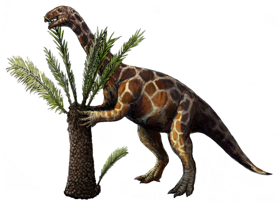 Unaysaurus tolentinoi eating a cycad.